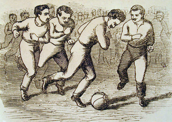 First depicting of football in Hungary